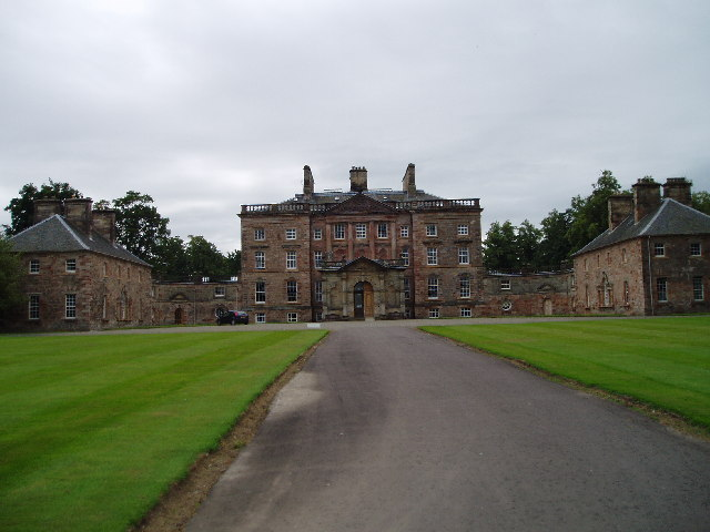 Arniston House. This beautiful mansion just south of Edinburgh has been the home of the Dundas family for over four hundred years, The house as we see it today was designed by William Adam and finished by his son John, Brother of the famous Robert Adam.